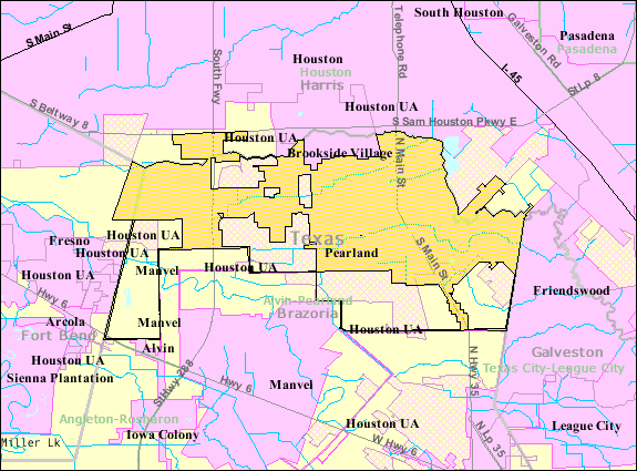 Map of Pearland, Texas